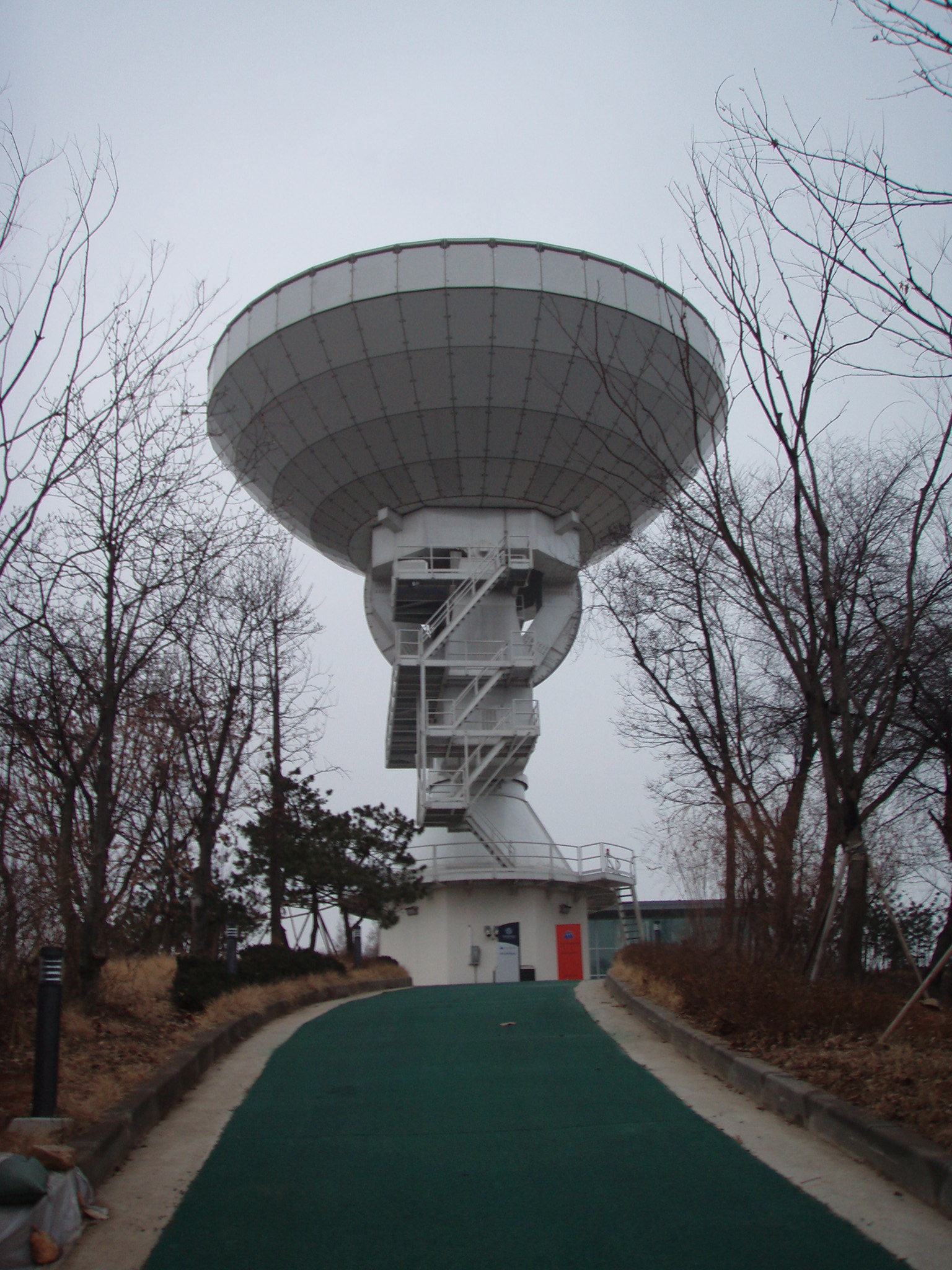 radio observatory at Yonsei.